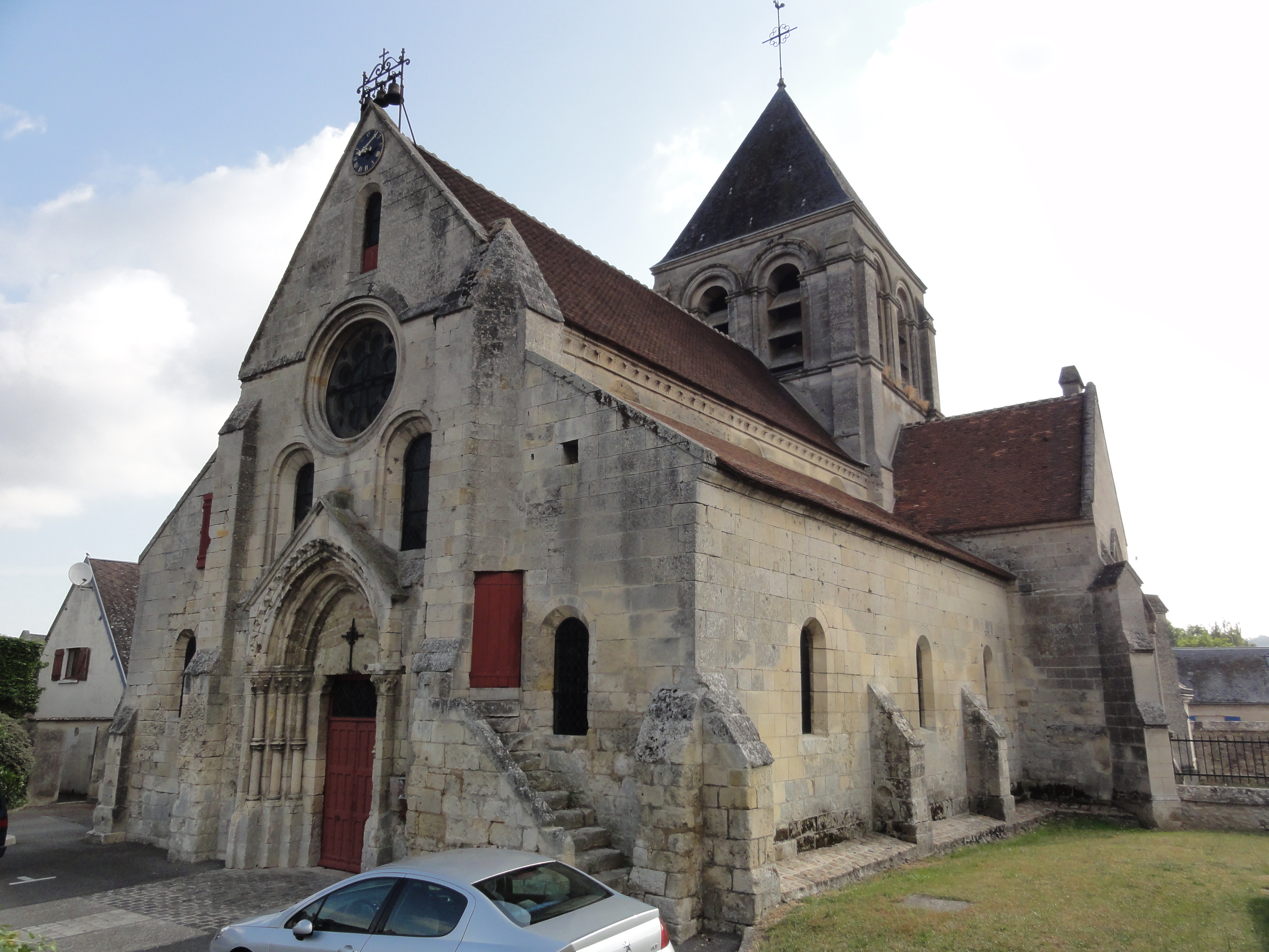 Courmelles (Aisne) église